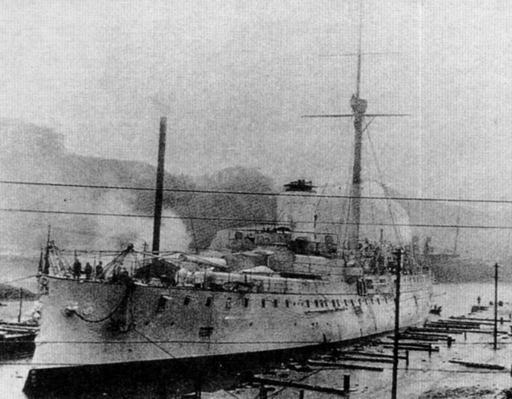 Picture of Japanese cruiser Itsukushima 1902 in dock